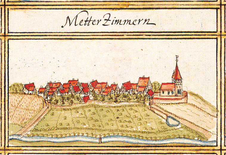 View of Metterzimmern from the forest register books created by Andreas Kieser